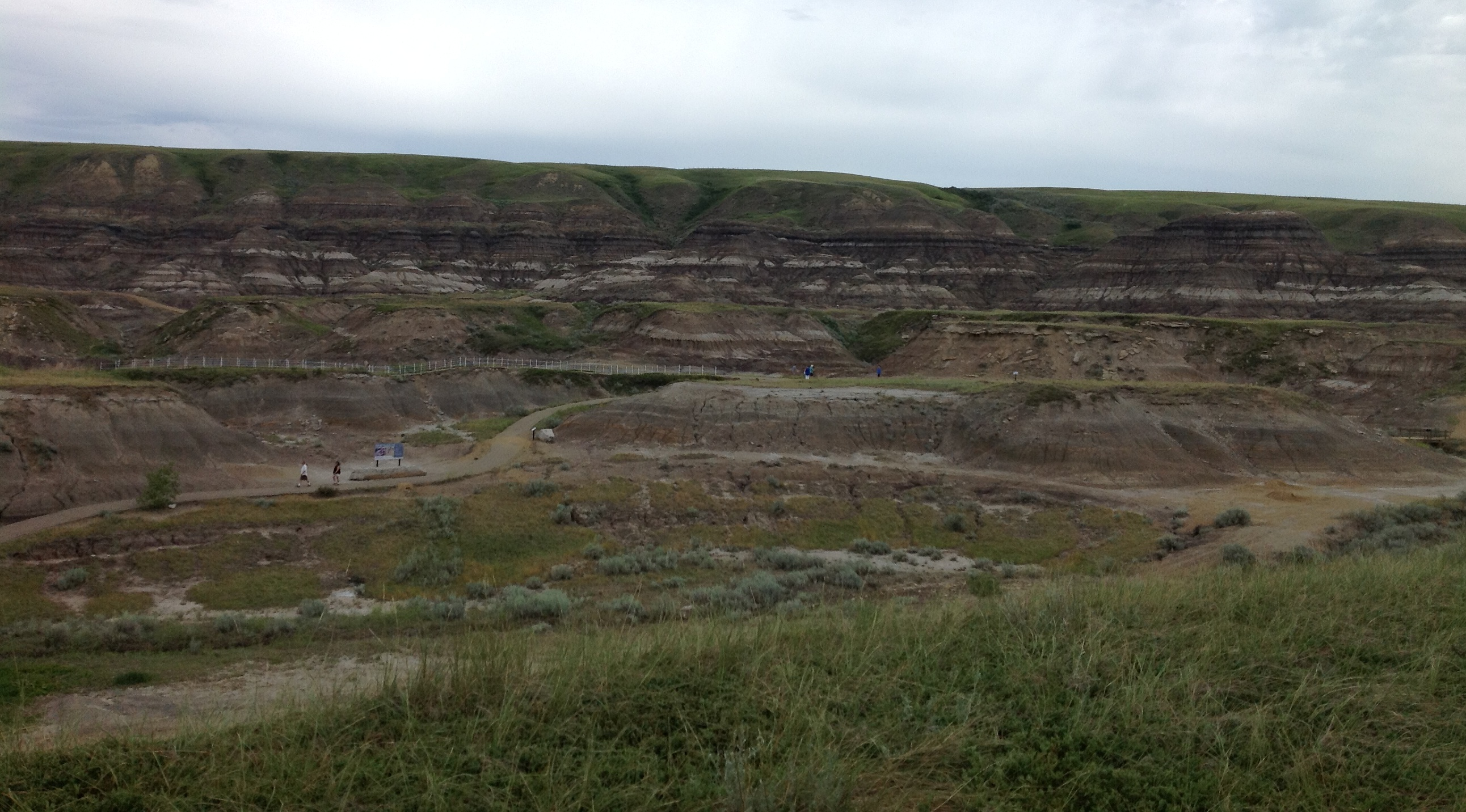 Midland Provincial Park is a provincial park located in Alberta, Canada.